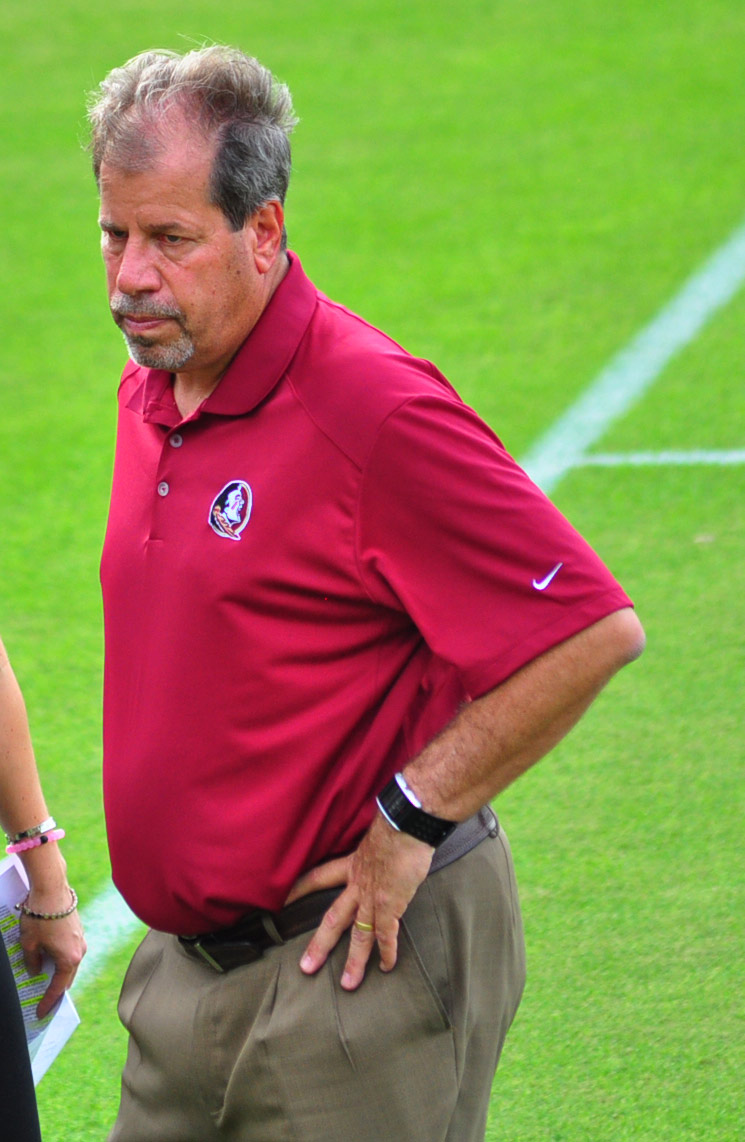 Katie Witham from Fox Sports - Halftime Interview with Coach Mark Krikorian